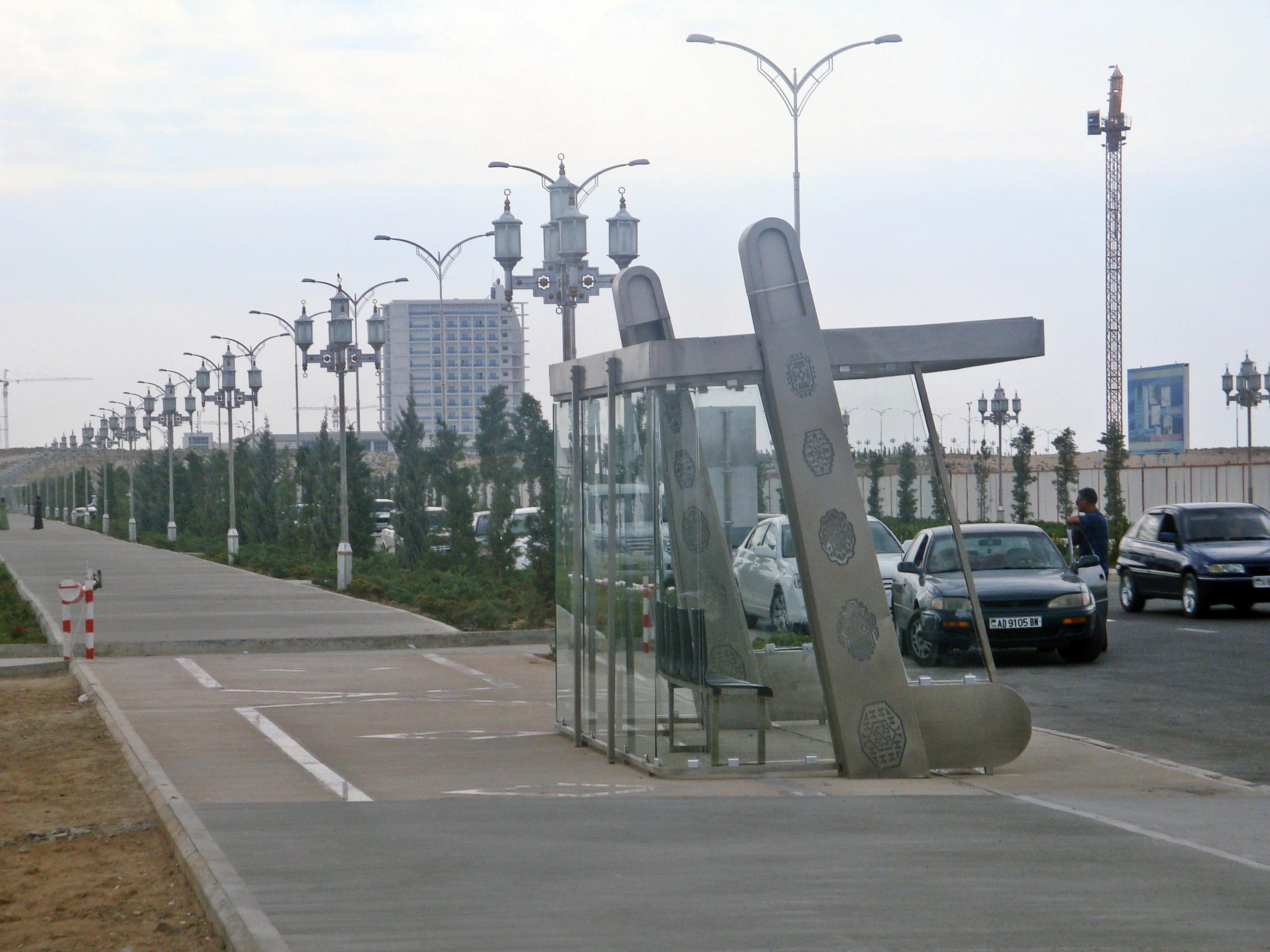 Busstop Awaza